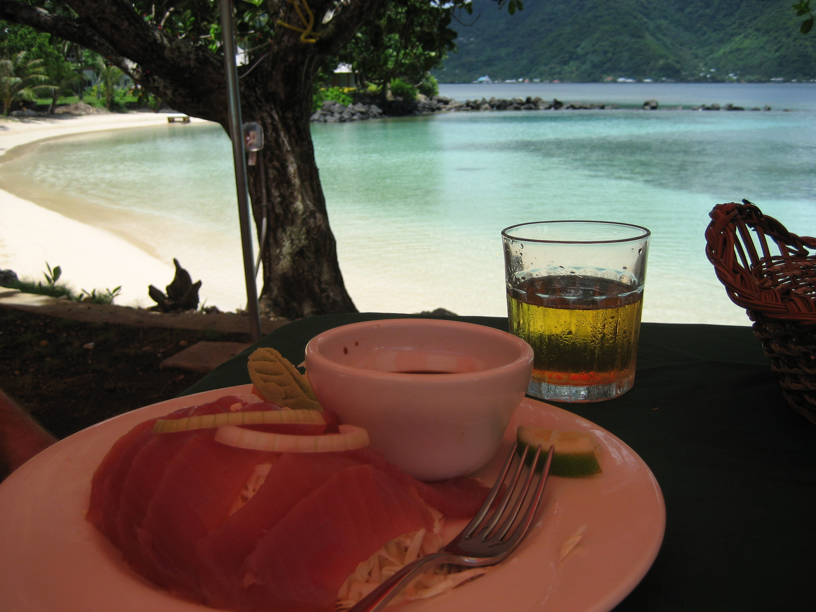 Mouth-watering tuna sashimi and a beer at Pago Pago harbour mouth